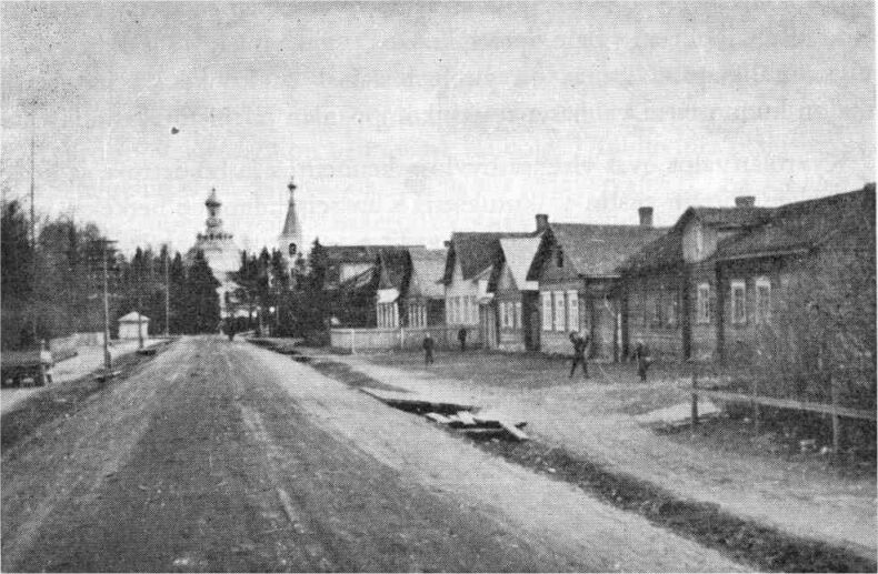 Street view in Kyyrölä before Winterwar.